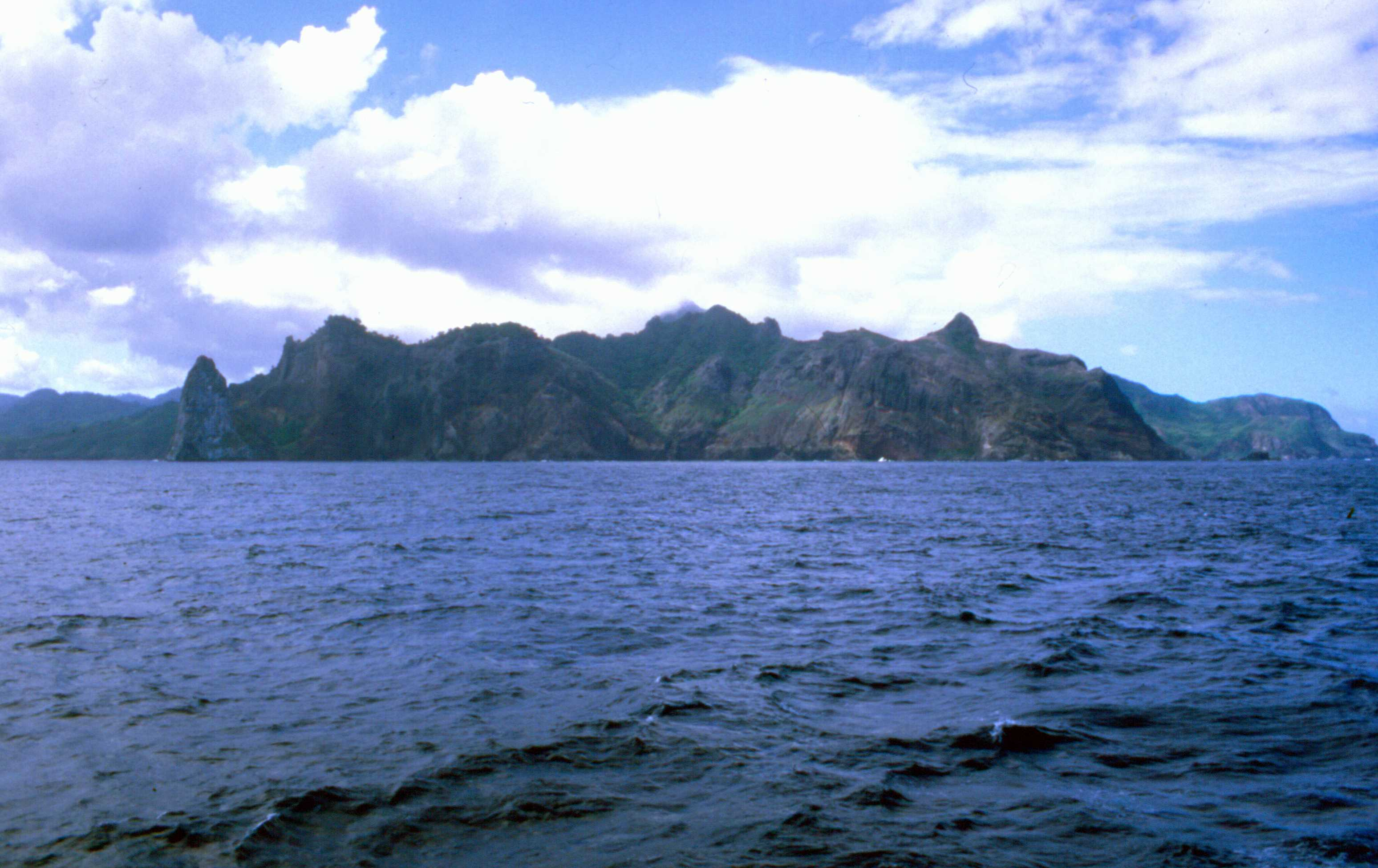 Southern coastline of Hiva Oa, Marquesas Islands, French Polynesia